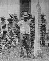 Angola Prison, Louisiana -- Leadbelly in the foreground [Prison compound no. 1, Angola, Louisiana. Leadbelly (Huddie Ledbetter) in the foreground]. Lomax, Alan, 1915-2002, photographer. CREATED/PUBLISHED 1934 July. NOTES Title devised by Library staff based on caption information and inventory lists. Handwritten on back: "Prison compund No 1. Angola, La. Leadbelly in foreground." Forms part of: Lomax collection of photographs depicting folk musicians, primarily in the southern United States and the Bahamas.